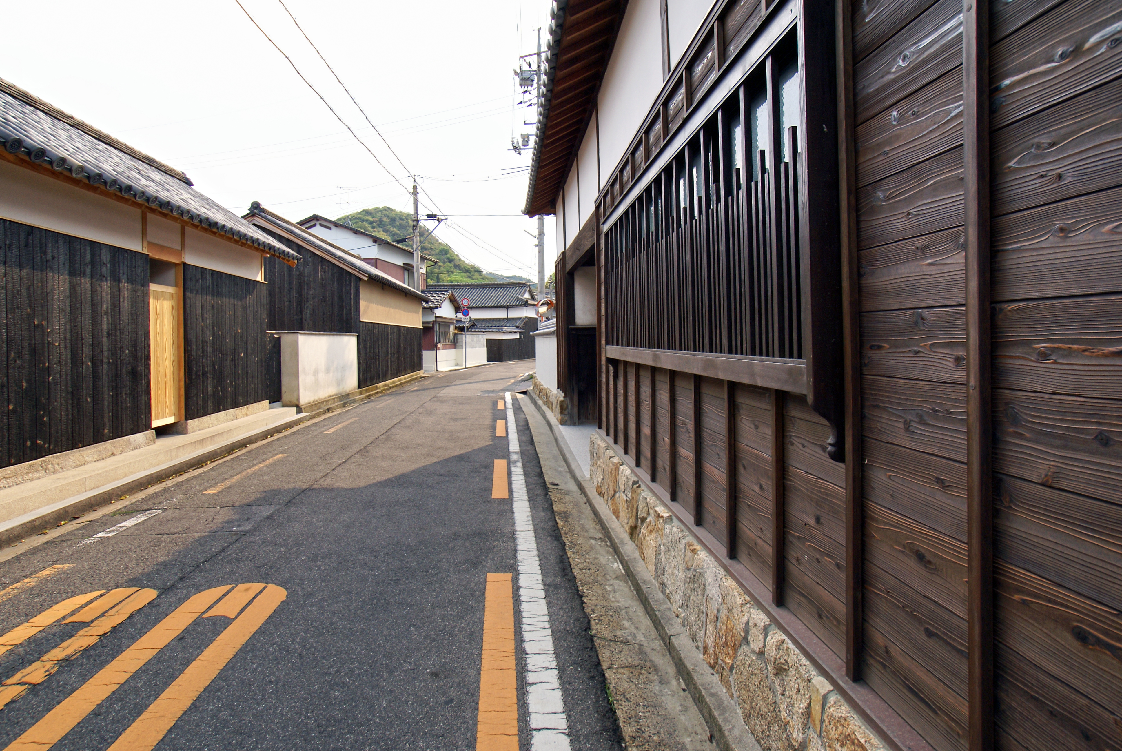 Art House Project in Naoshima, Kagawa prefecture, Japan